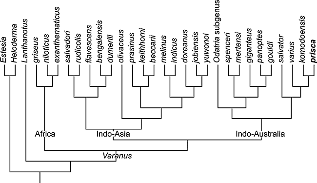 phylogeny